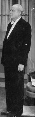 Adolfo Meyer-actor